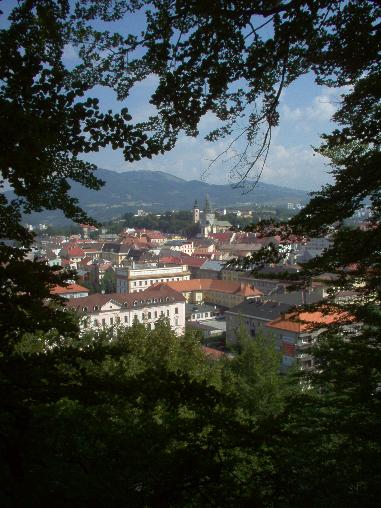 Banska Bystrica from Urpín, Slovakia